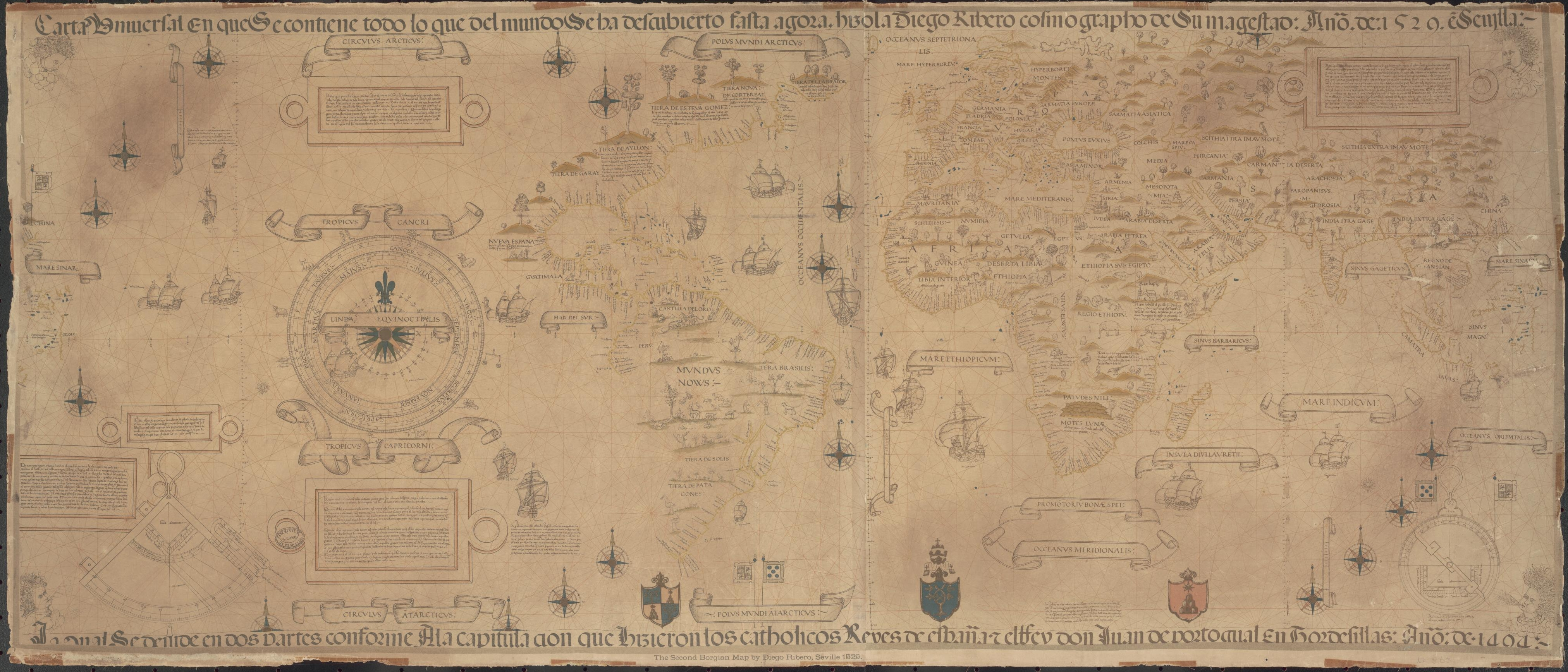 World Map (Original text: National Library of Australia World Map) Description=Carta universal en que se contiene todo lo que del mundo se ha descubierto fasta agora, hizola Diego Ribero cosmographo de su magestad, año de 1529, e[n] Sevilla / La cual se devide en dos partes conforme A la capitulacion que hizieron los catholicos Reyes de españa y el rrey don Juan de portogual En Tordesillas Año de 1494 Facsimile made in London by W. Griggs, ca. 1887? 1 map on 2 sheets: col.; 58 x 140 cm., sheets 61 x 79 cm and 61 x 66 cm. Note: "Reproduced from the original in the Museum of the 'Propaganda' in Rome, lent by His Holiness Pope Leo XIII, by W. Griggs, London." In lower margin: The second Borgian map by Diego Ribero, Seville 1529